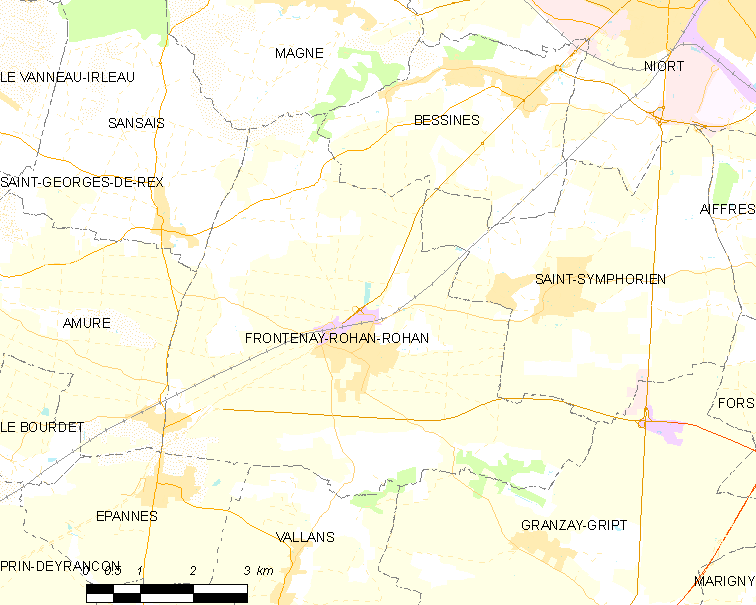 Map of French municipality Frontenay-Rohan-Rohan